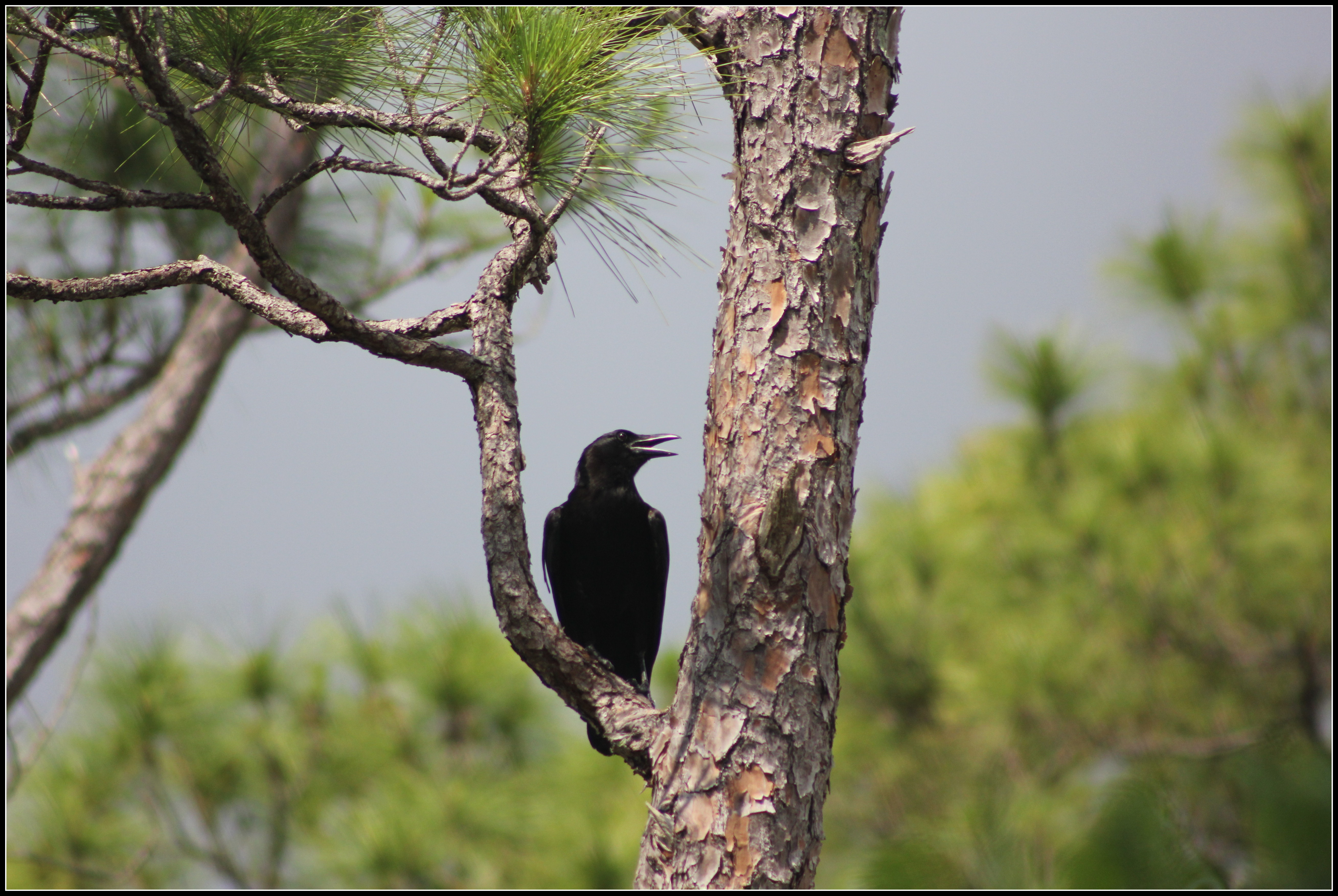 FIELD MARKS-black,iridescent plumage overall long,heavy,black bill brown eyes black legs and feet